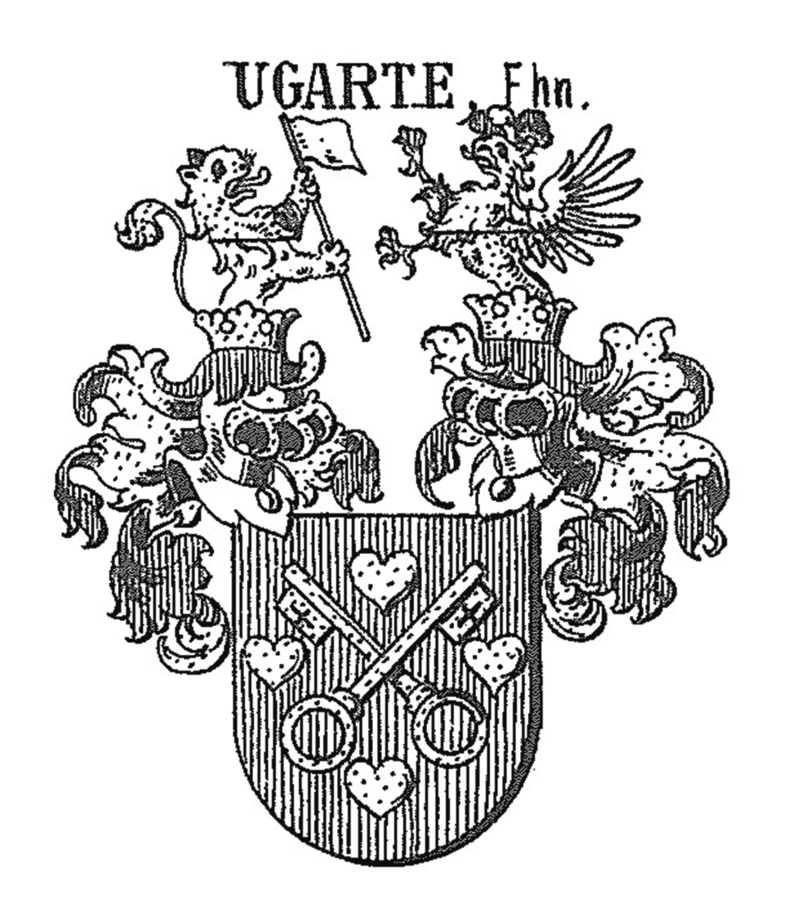 Coat of arms of Ugarte (Barons)